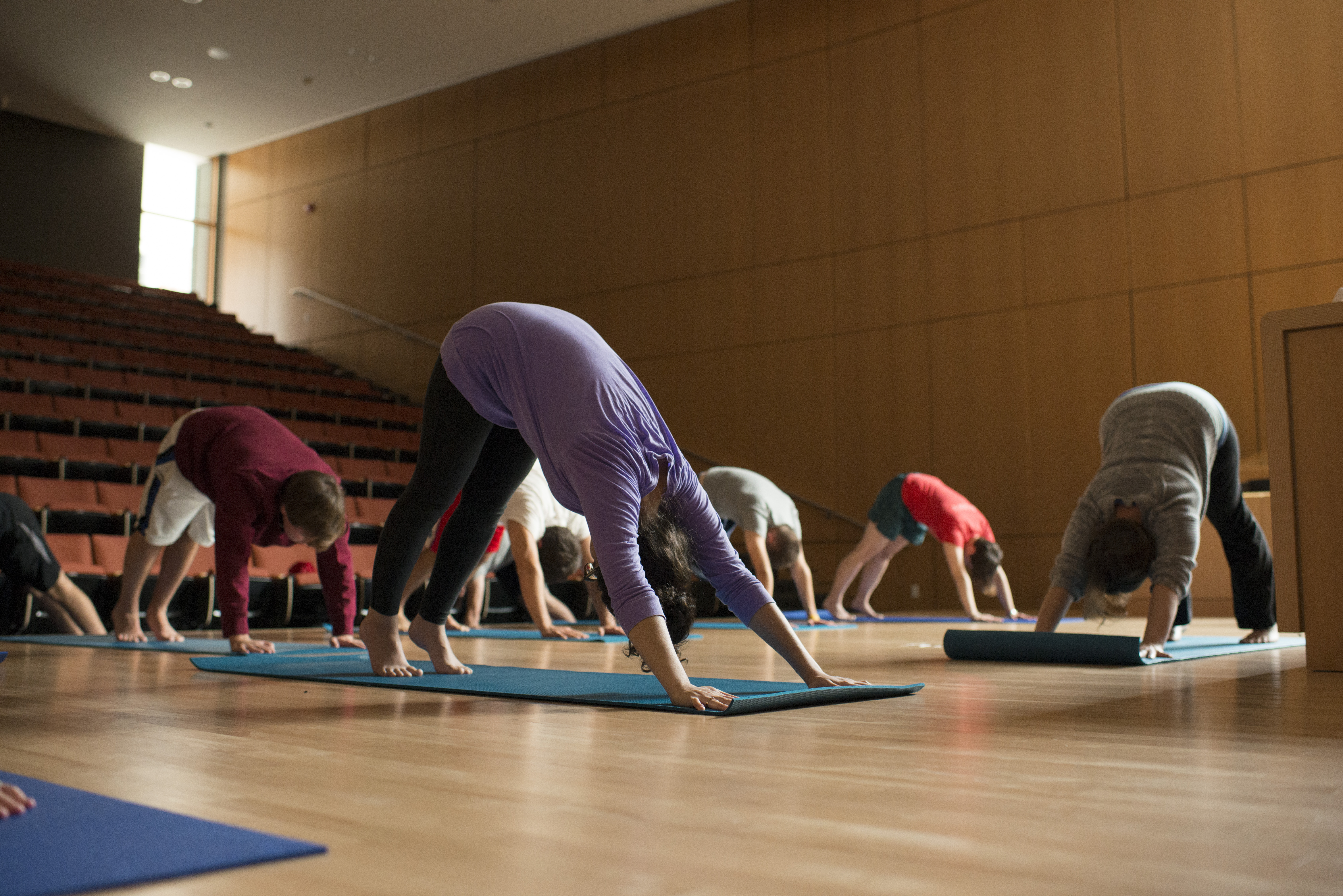 Penn State University, Dickinson School of Law